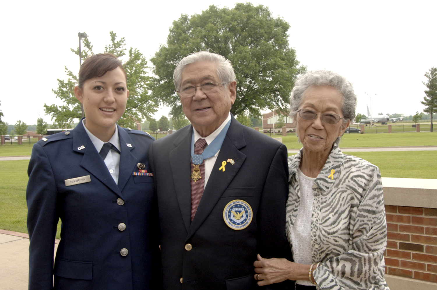 Medal of Honor recipient Hiroshi Miyamura stands with 2nd Lieutenant Marisa Miyamura, his granddaughter, and Terry, his wife of 62 years, on May 17, 2010, at Scott Air Force Base, Illinois. Miyamura shared his experiences as a Korean War veteran and POW with members at Scott AFB as part of Asian-Pacific American Heritage Month celebrations. Lieutenant Miyamura is a communications officer assigned to Scott AFB.